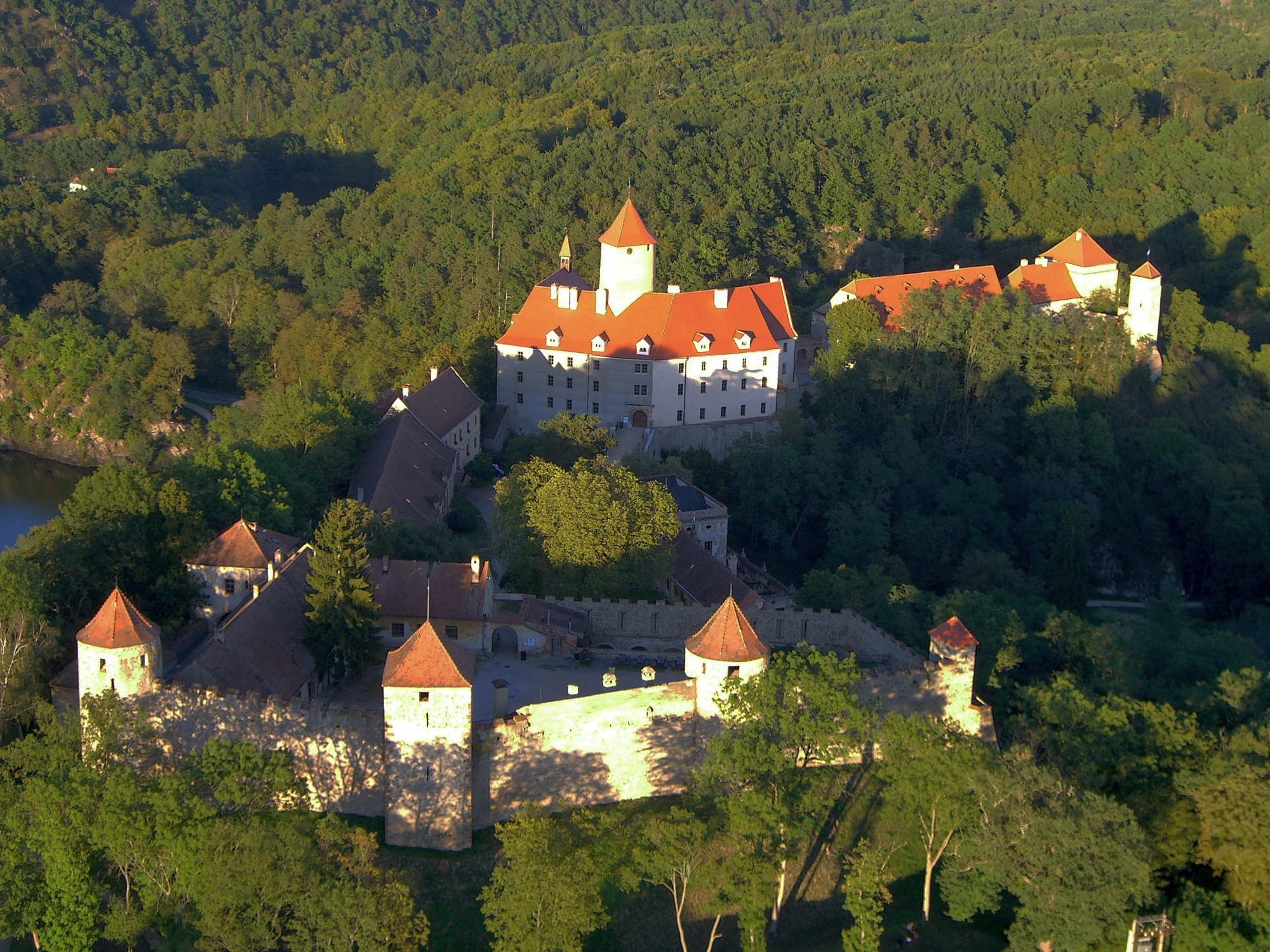 Veveří Castle, view from hot air balloon.